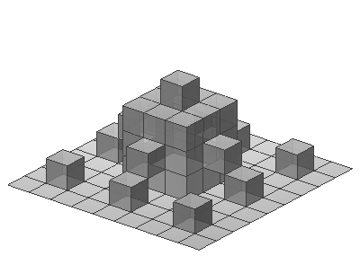 Second iteration of 3D Koch quadratic fractal